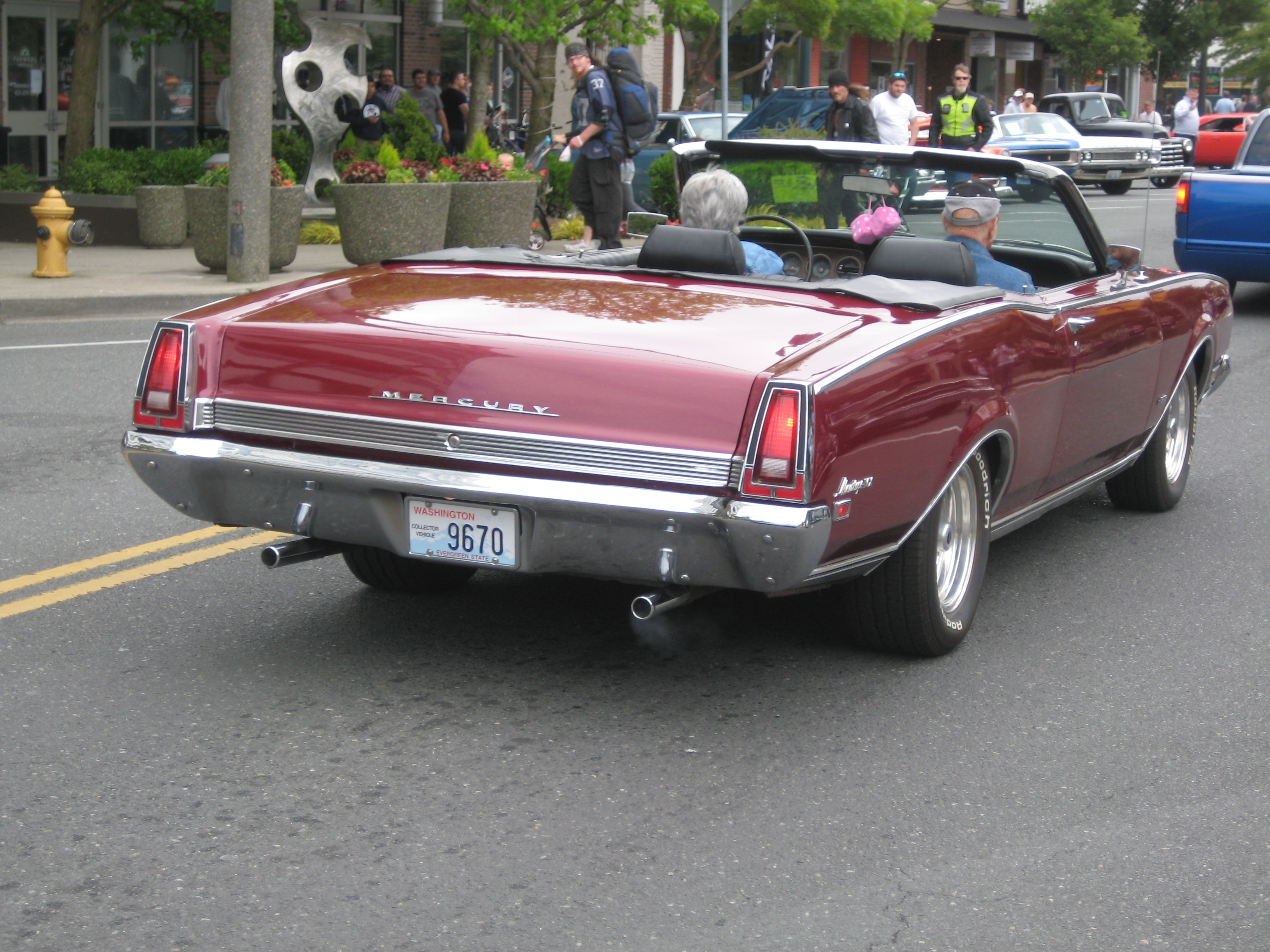 Cruise on Colby, Everett, Washington